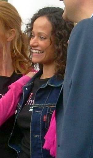 Actress Judy Reyes ("Scrubs") - Susan G. Komen Race for the Cure, Pasadena.